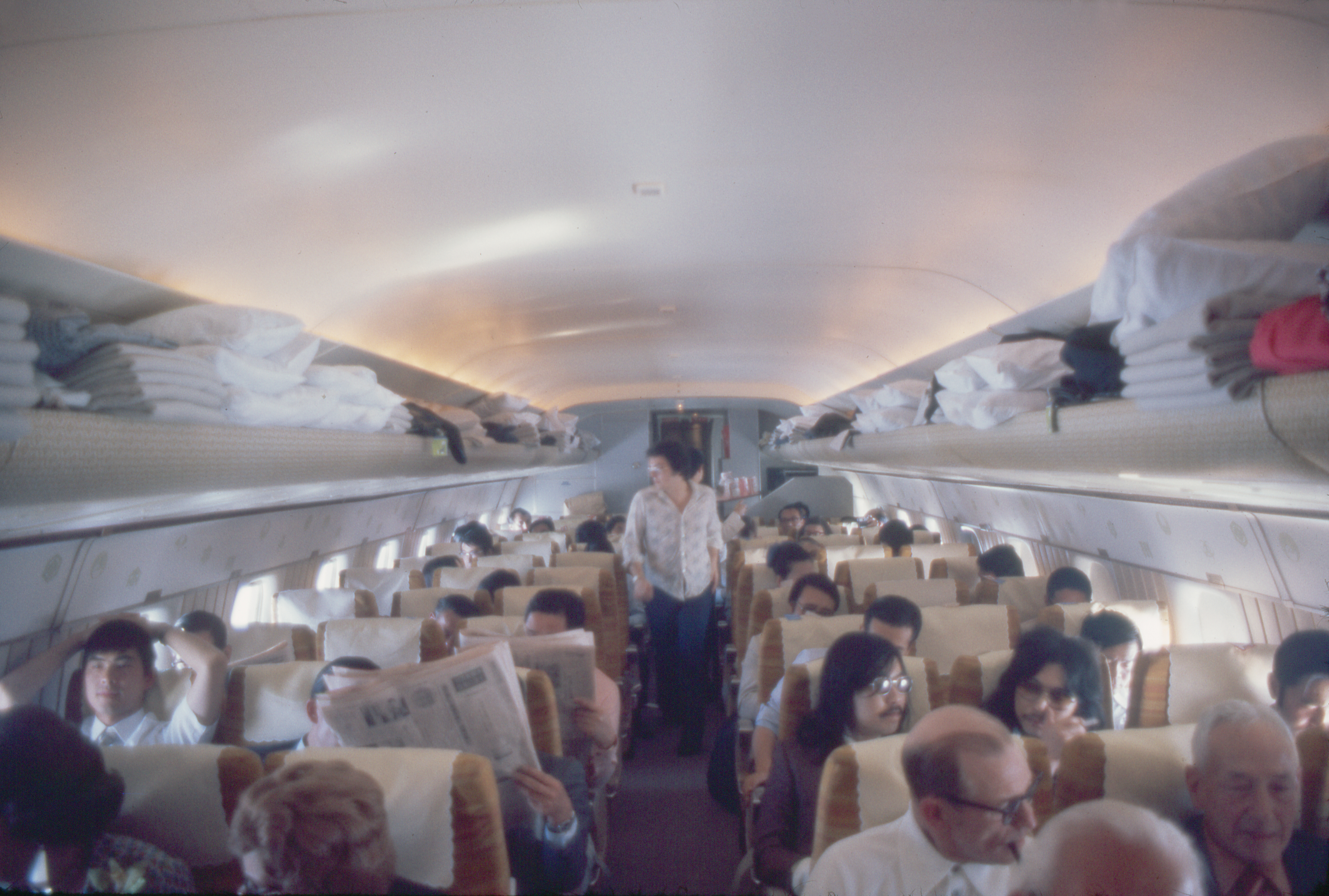 Y Class, 1973.